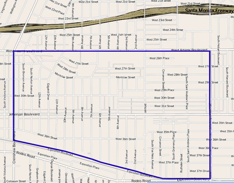 Map of Jefferson Park, as limned by the Los Angeles Times Other information Boundary map as drawn by the Los Angeles Times on a CC-by-SA background. Note at bottom right of map on the L.A. Times website noted above says "CC-by-SA" (which gives permission to use the map). There is a link there to which explains the meaning thereof. The base map is credited to The Times spells all this out at